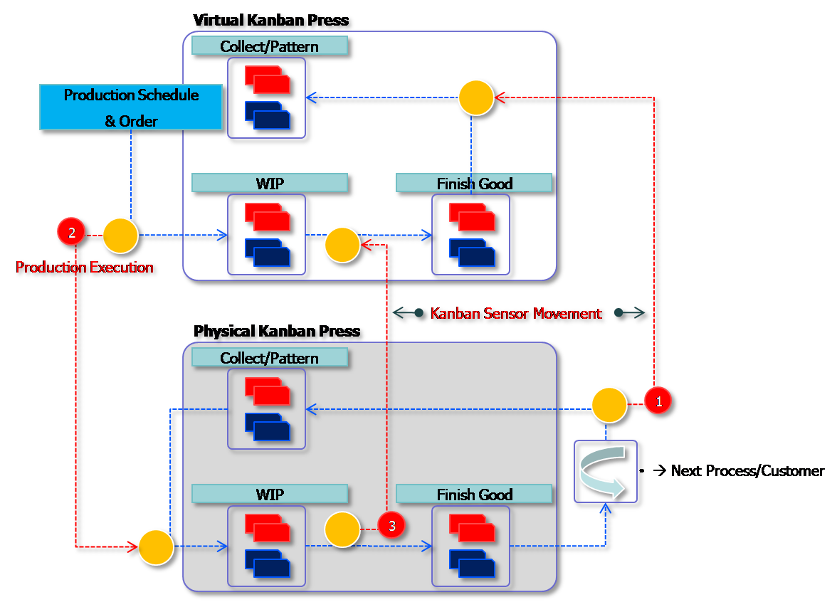 Concept of G5 Virtual Kanban